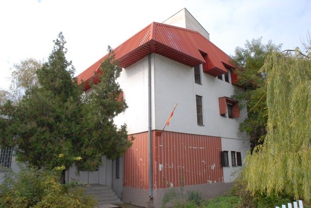 The building of the archives of Veles, a department of the State Archive of the Republic of Macedonia. This media file is produced by Wikipedian in Residence in Category:Wikipedian in Residence at DARM in 2016.